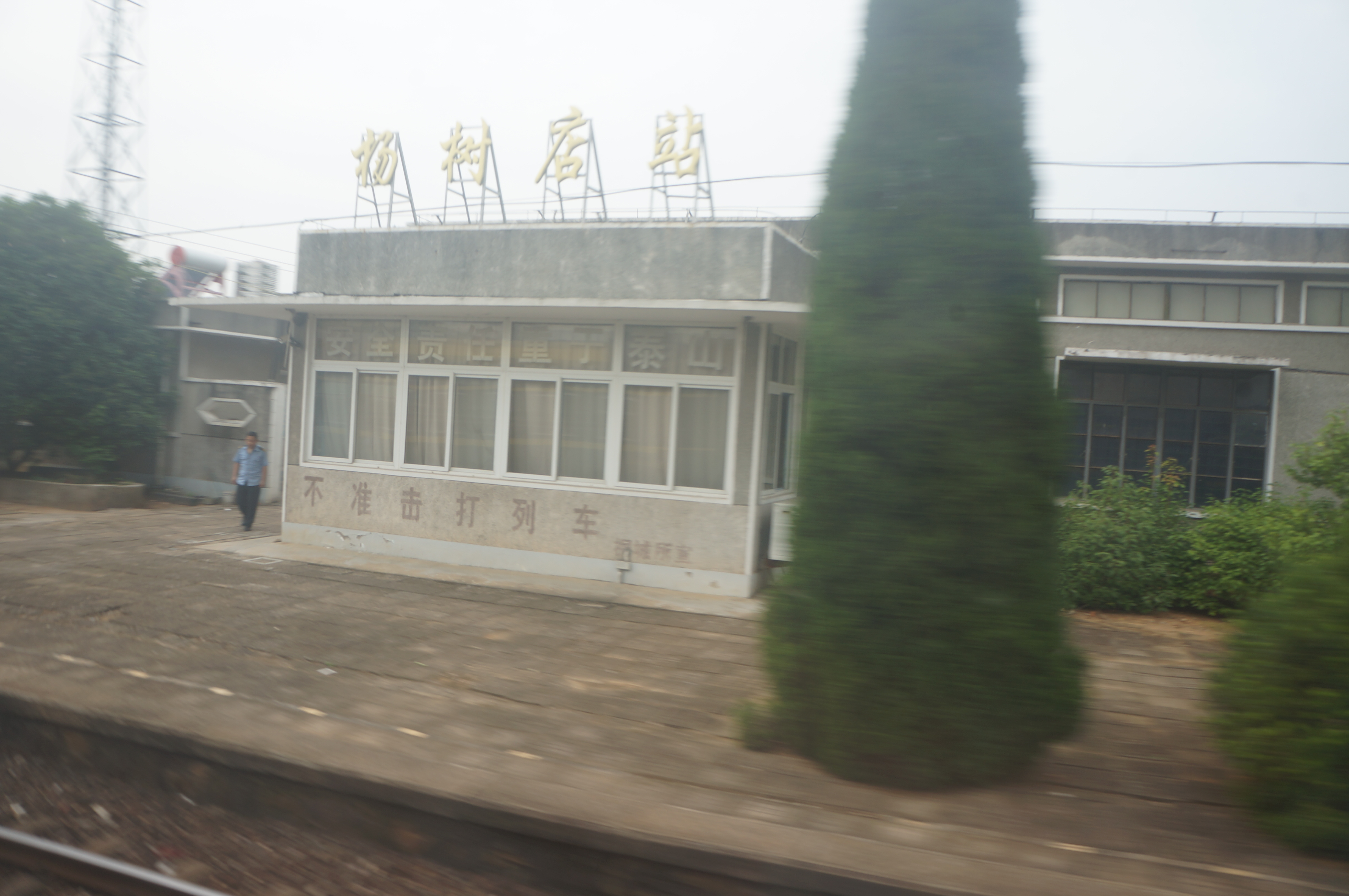 201705 Station building of Yangshudian